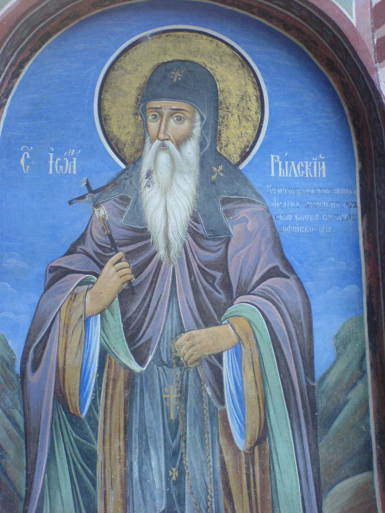 Ivan Rilski (John of Rila), fresco from Rila monastery, Bulgaria